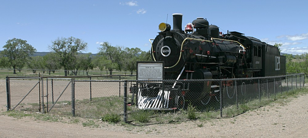 ATSF engine no. 1129 in Las Vegas, New Mexico on the northwest corner of Grand Ave & Mills Ave. The plaque in front of the locomotive says: The Engine was built for the Santa Fe Railroad Co. by the Baldwin Locomotive Works, in 1902 & used in regular service on various divisions of the Santa Fe Railroad in New Mexico, for 51 years. It's last trip in railroad service ended in Belen, NM, July 25, 1953. As a gift from Santa Fe to the City of Las Vegas. It was brought to Las Vegas, April 25, 1956, by rail, to its present location in Las Vegas, New Mexico. It now stands on the track of one of the shortest railroads in the world.